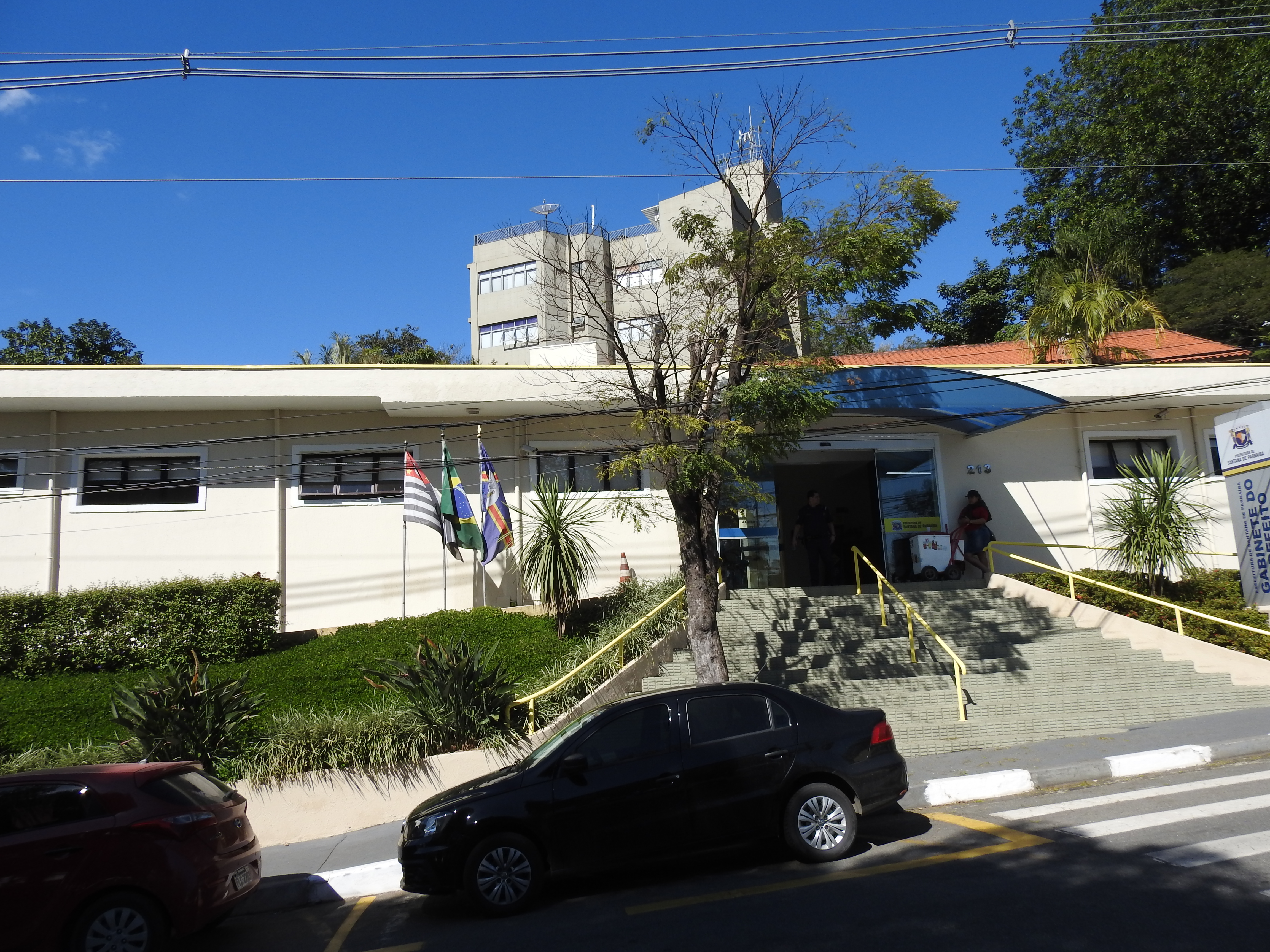 Wiki Takes Santana de Parnaíba